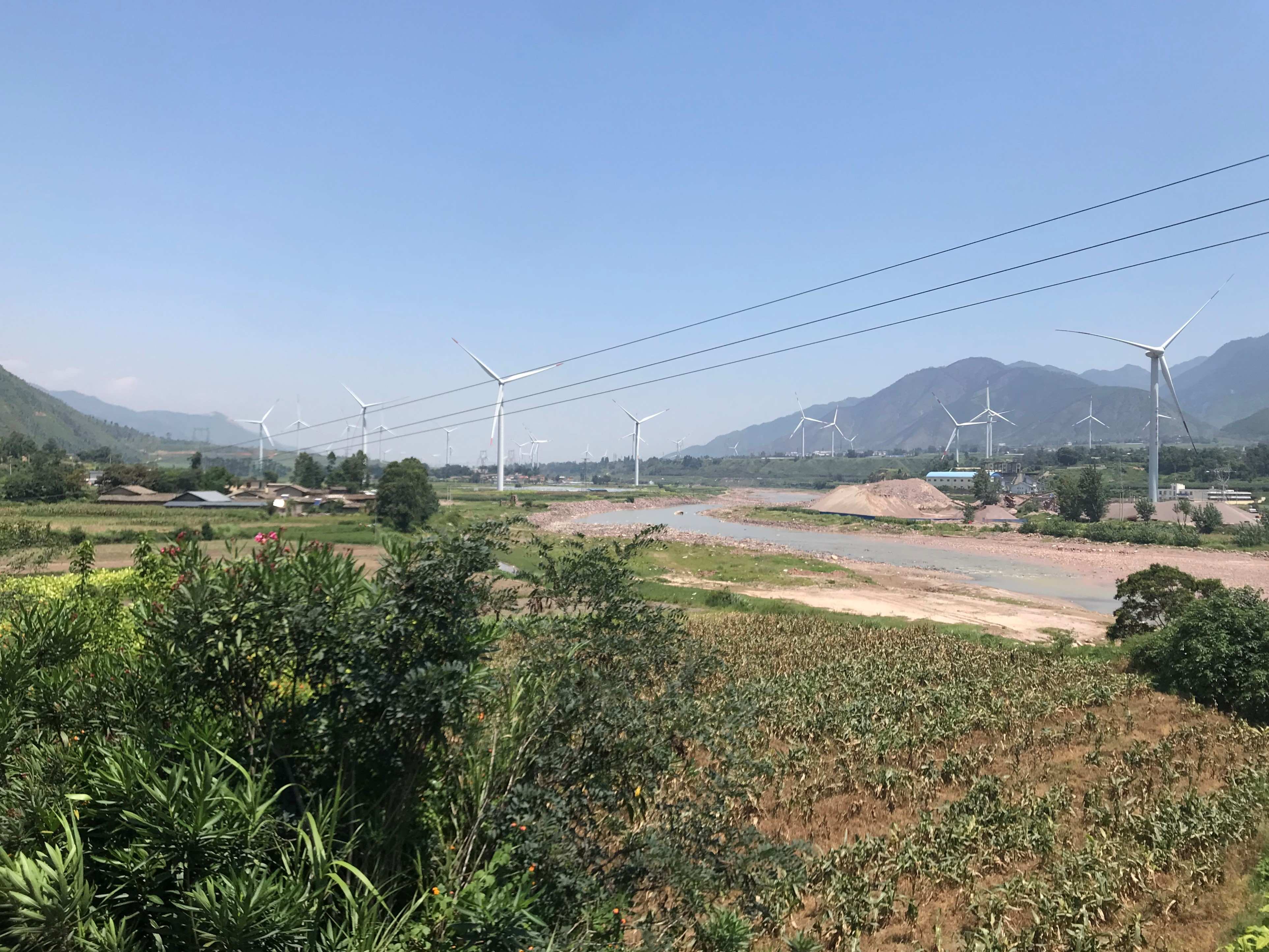 201908 Dechang Wind Farm Phase 1 in Huangshui